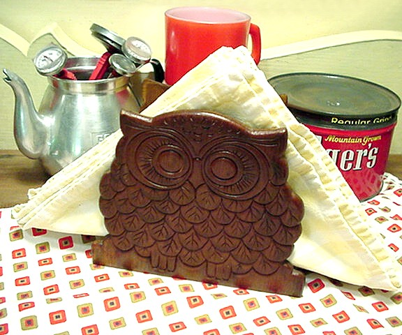 Makes a cute napkin holder, don't you think?